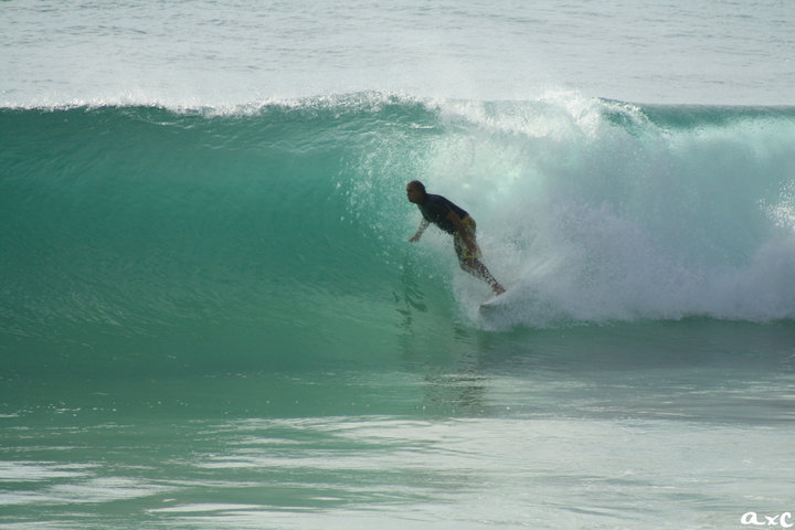 Peter Harris surfing Burleigh Point his home break